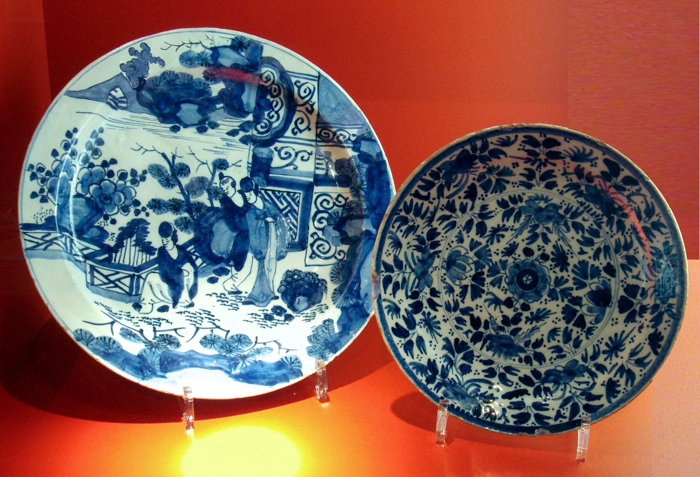 Delft China 18th Century, Companie Des Indes